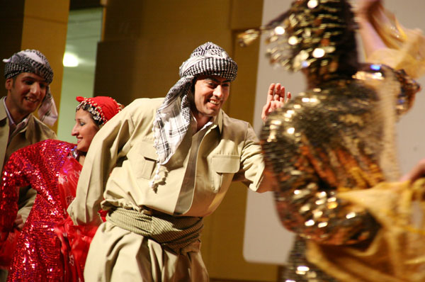 Iraqi Kurdish National Folk Dance Troupe Jwany To’o (Your Beauty) performs during a 10-day camp for aspiring Iraqi performers and artists at the National Unity Performing and Visual Arts Academy in Iraq.